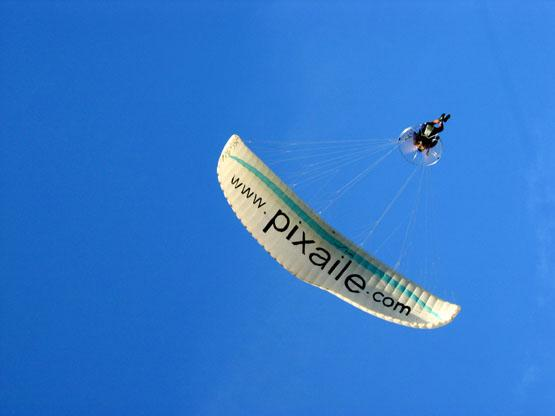 A powered paragliding in flight.